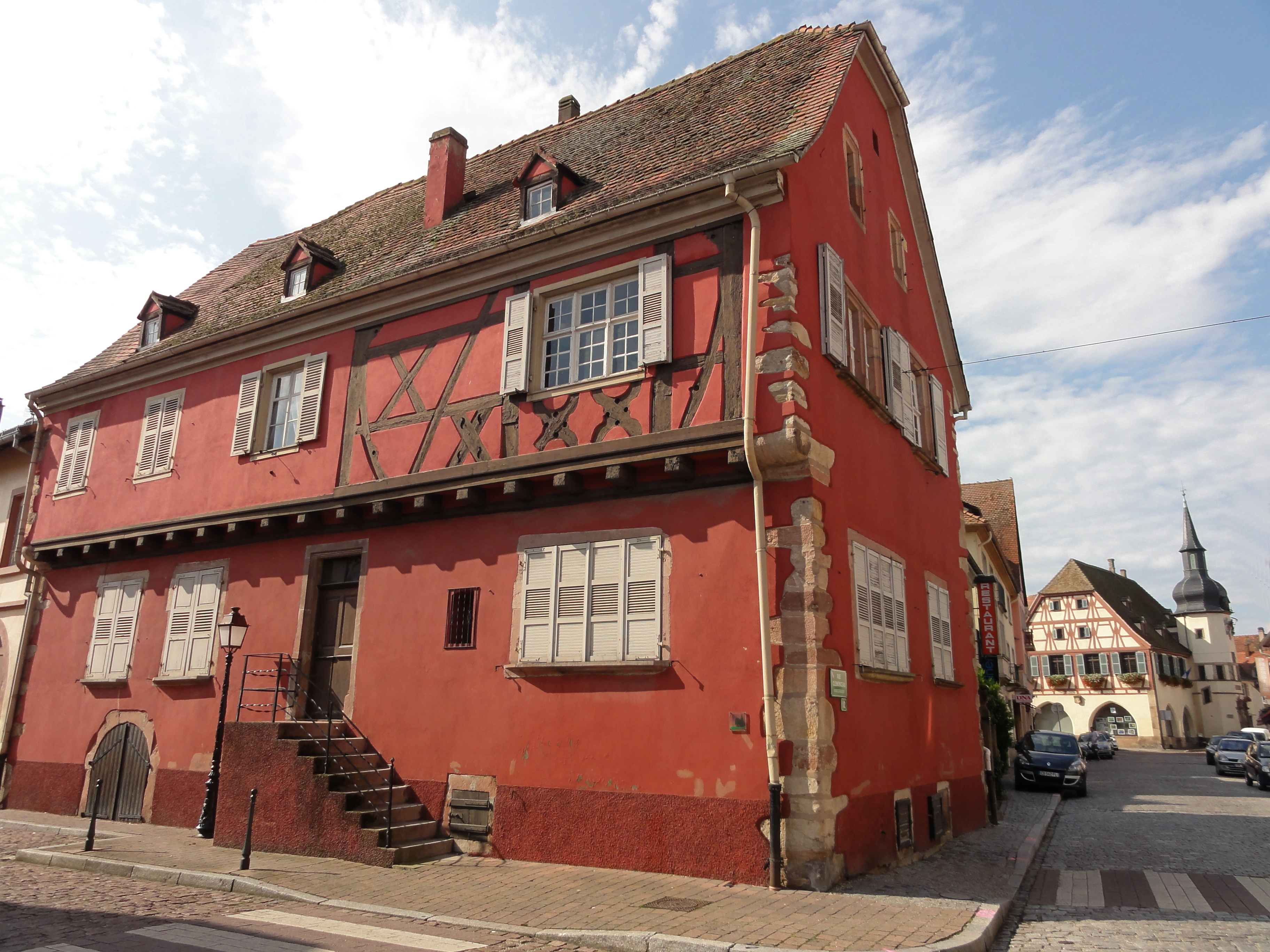 Alsace, Bas-Rhin, Benfeld, Maison de bailli (XVIe), 12 rue Clemenceau. It is indexed in the Base Mérimée, a database of architectural heritage maintained by the French Ministry of Culture, under the references PA00084606 and IA00023519 .